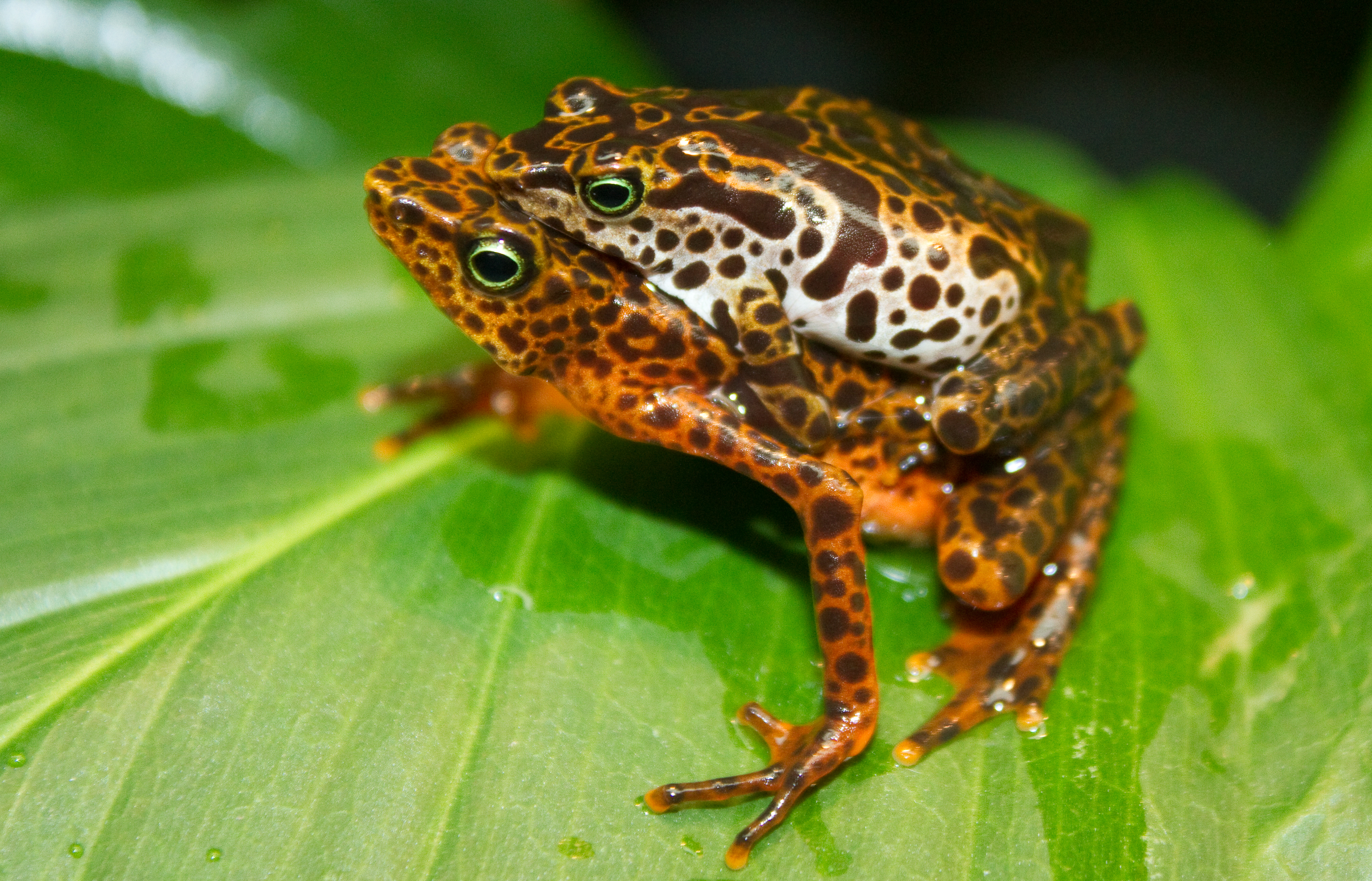 Pair in amplexus - we hope they'll be laying eggs soon at the Summit Municipal Park